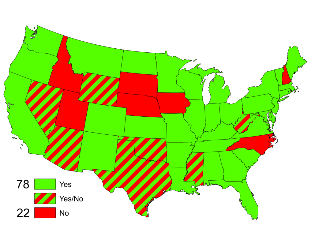 1983 United States Senate vote on making Martin Luther King Jr. Day a holiday